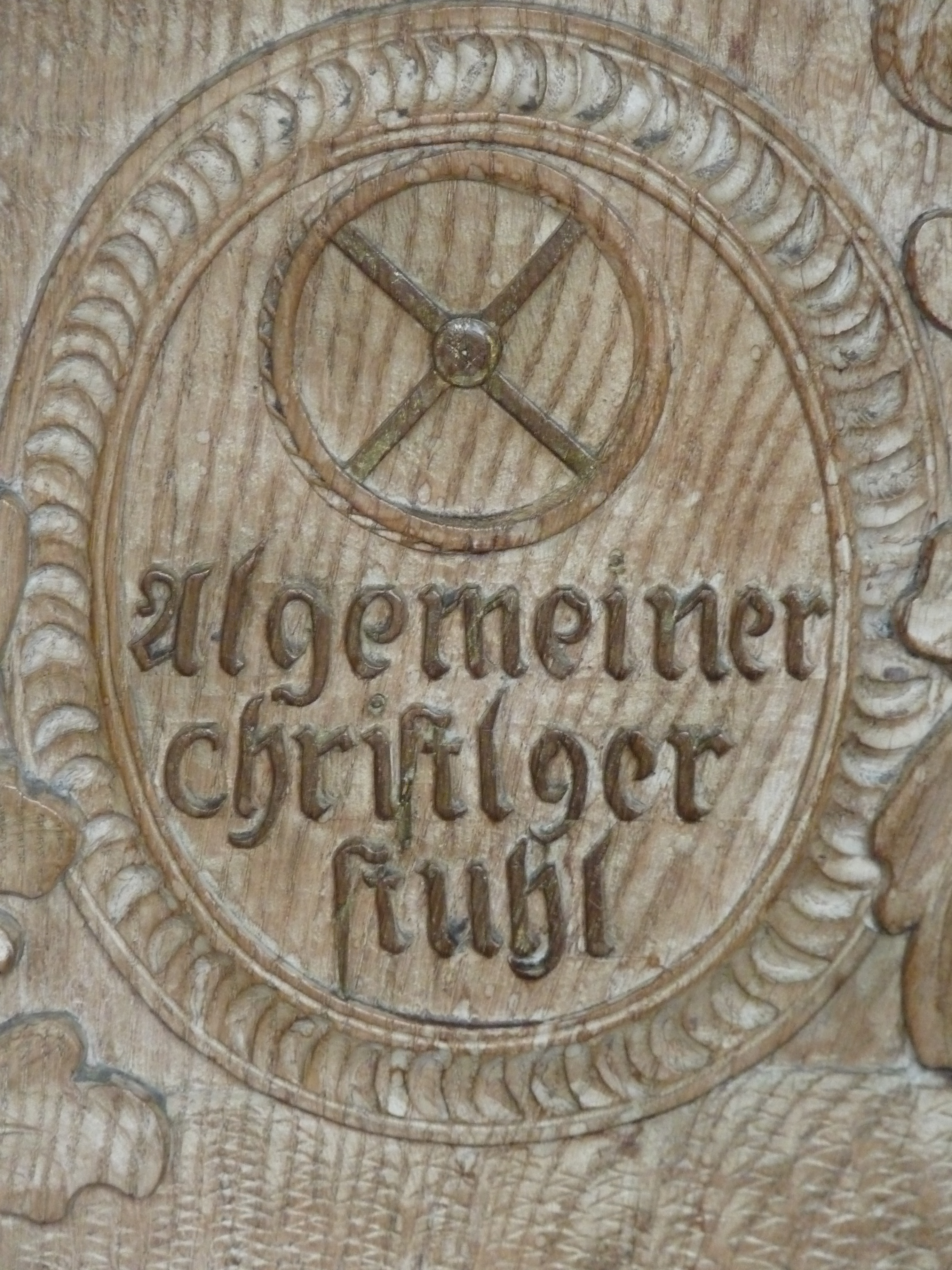 Inscription on a pew in Lamspringe Abbey, Lower Saxony